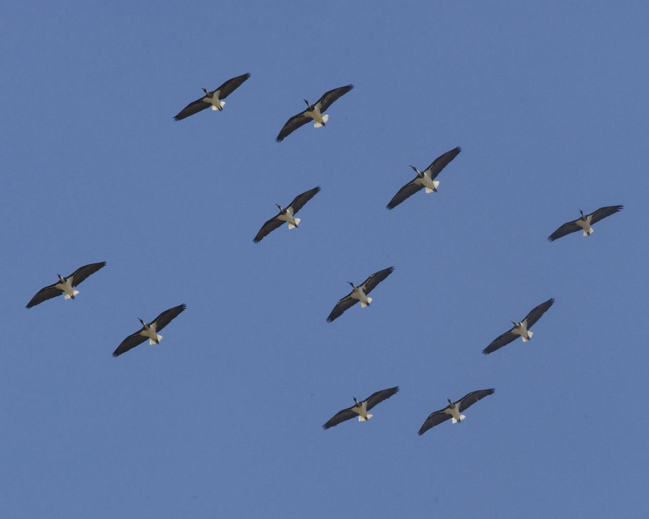 Straw-necked Ibis Threskiornis spinicollis Mary River, Northern Territory, Australia 8 August 2010 690V9228 Straw-necked Ibis